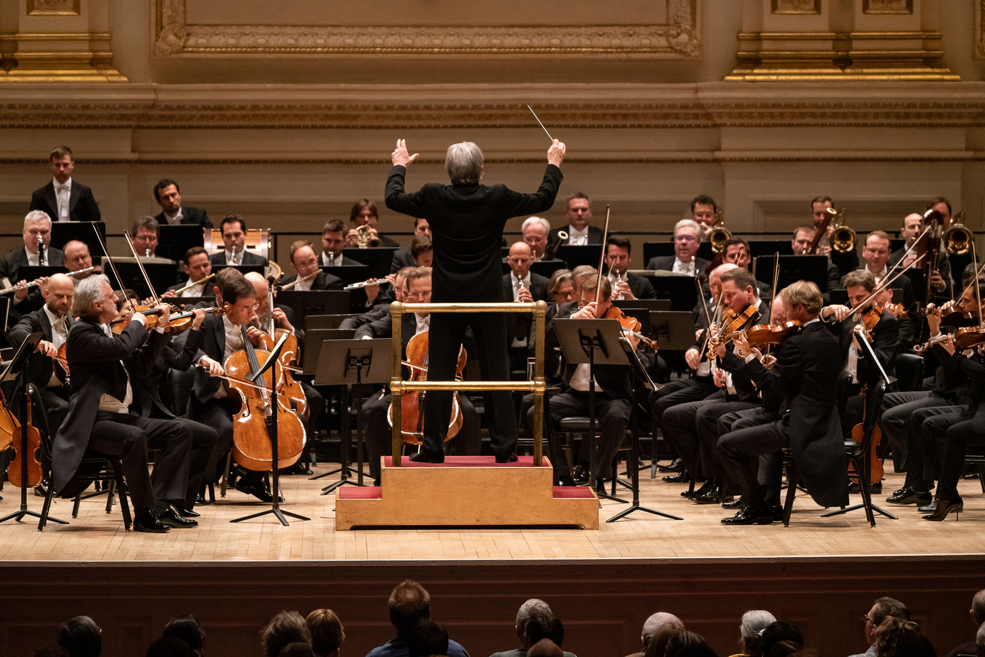 March 6, 2019 Carnegie Hall Mahler's "Ninth Symphony"